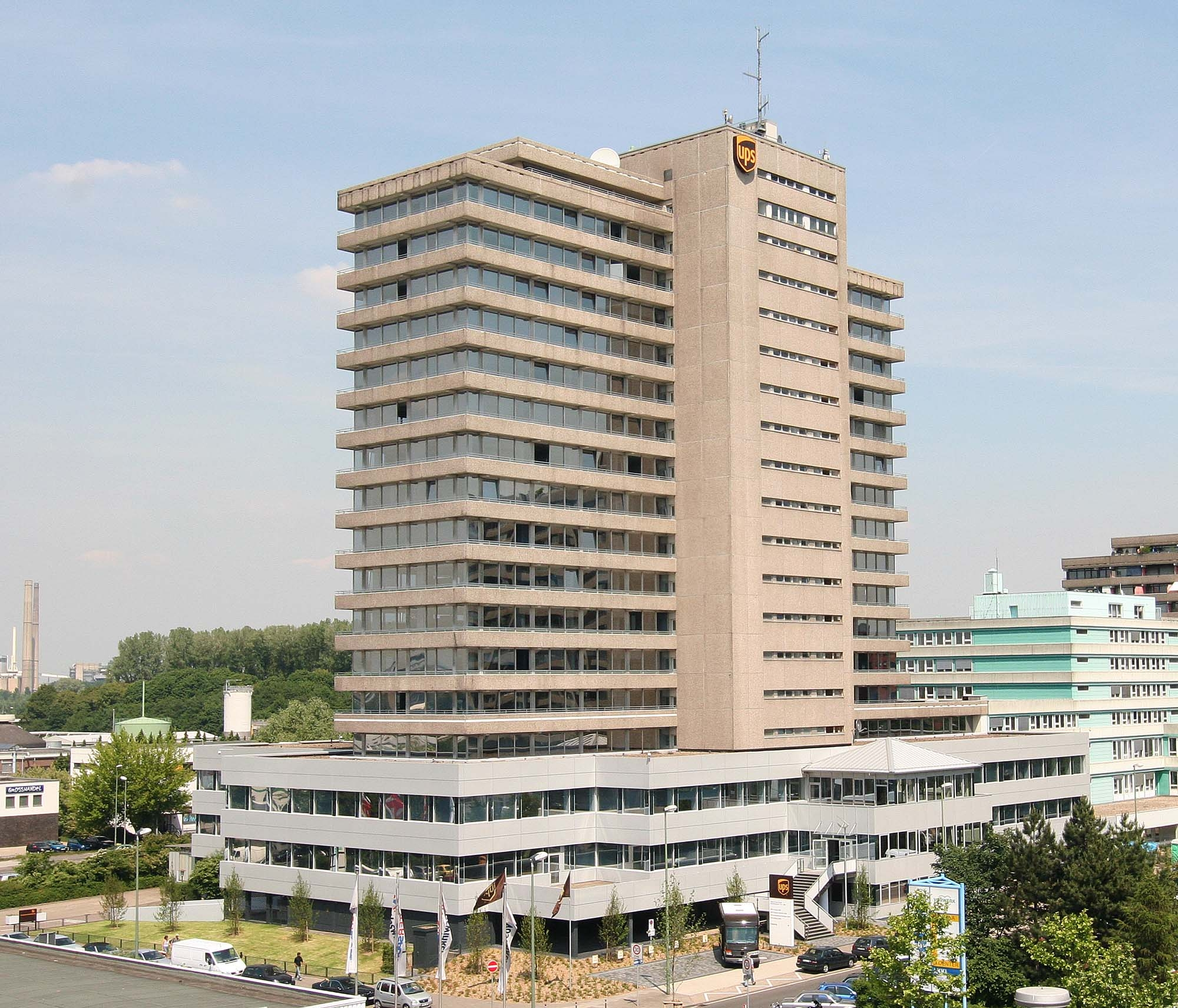 UPS German HQ in Neuss